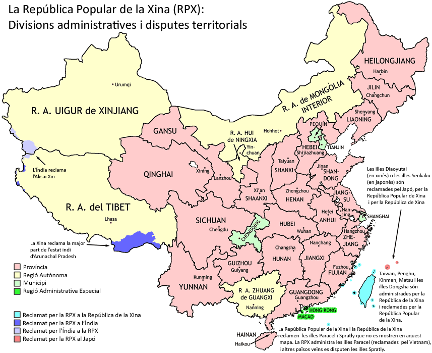 Own work based on the same image in English.